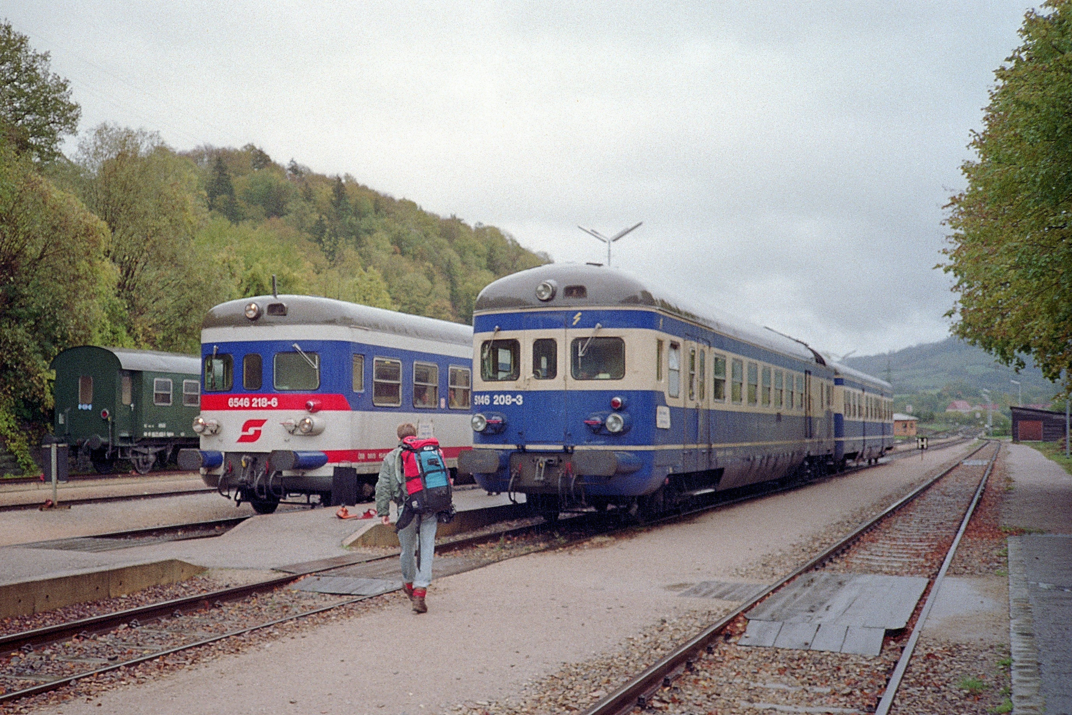 ÖBB diesel railcar 5146 208-3 and steering unit 6546 218-6 at Traisen station.